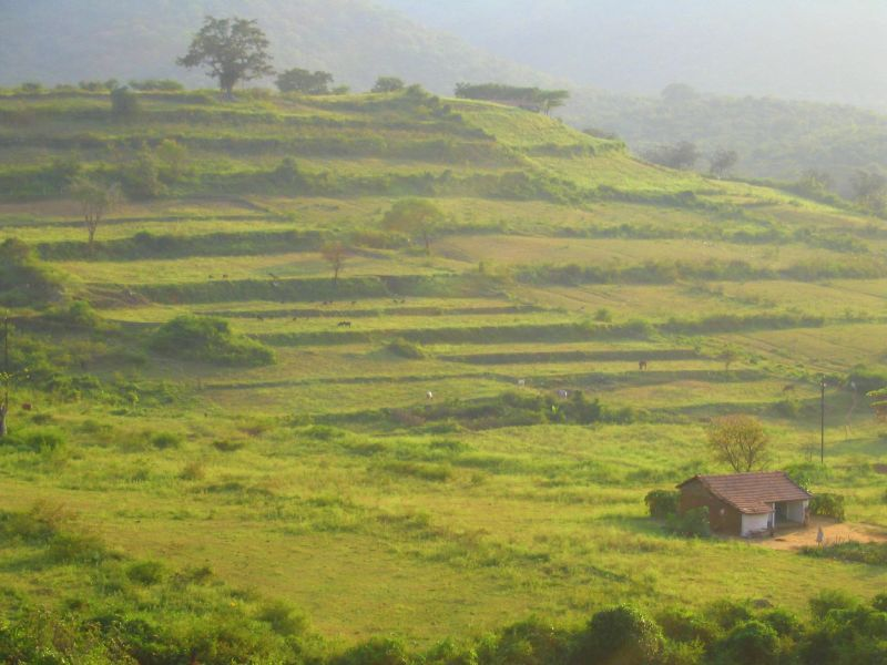 Terraced fields on the hills around Coimbatore, Tamil Nadu, India